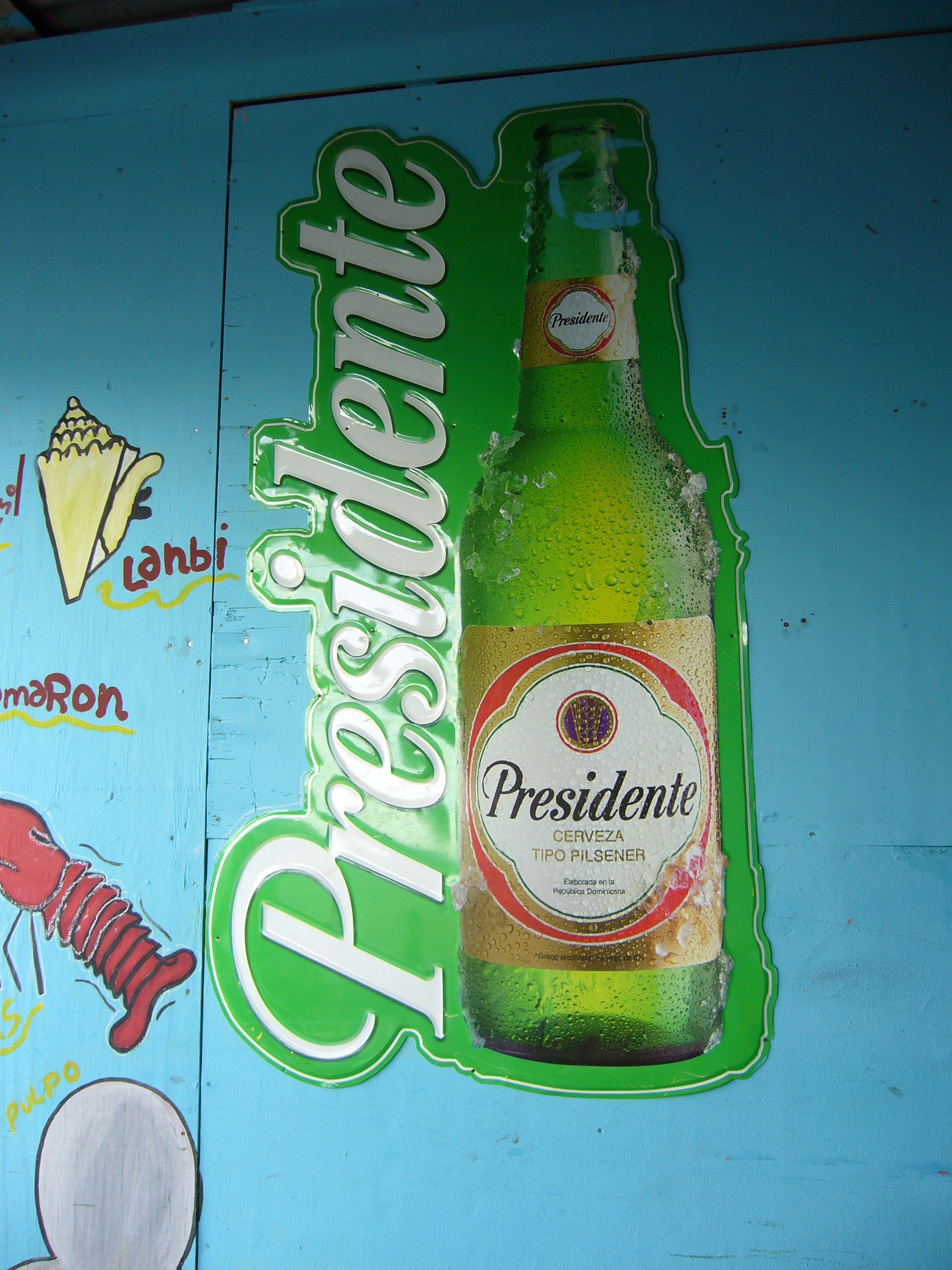 Advertising is done across the country for Presidente beer, one of the most famous varieties in the Dominican Republic.